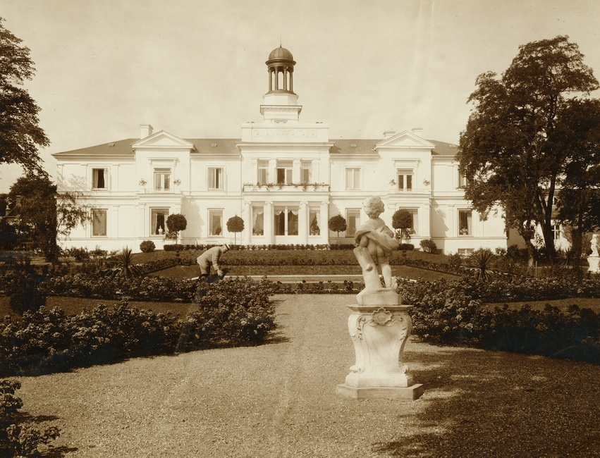 The mansion Heslehøj in Hellerup, outside Copenhagen, Denmark. The photo shows Heslehøj after the rebuilding in 1915 for CEO of Nordisk Film, Ole Olsen.